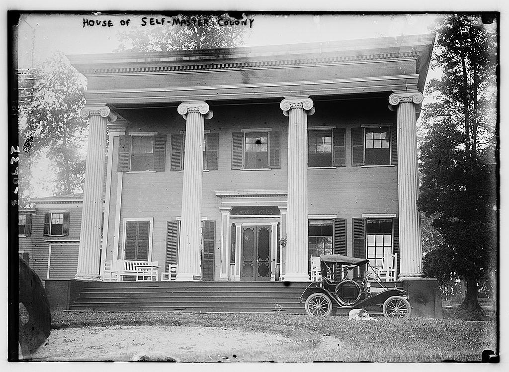 Bain News Service,, publisher. House of Self-Master Colony [between 1910 and 1915] 1 negative : glass ; 5 x 7 in. or smaller. Notes: Title from unverified data provided by the Bain News Service on the negatives or caption cards. Forms part of: George Grantham Bain Collection (Library of Congress). Format: Glass negatives. Repository: Library of Congress, Prints and Photographs Division, Washington, D.C. 20540 USA, General information about the Bain Collection is available at Persistent URL: Call Number: LC-B2- 2270-3